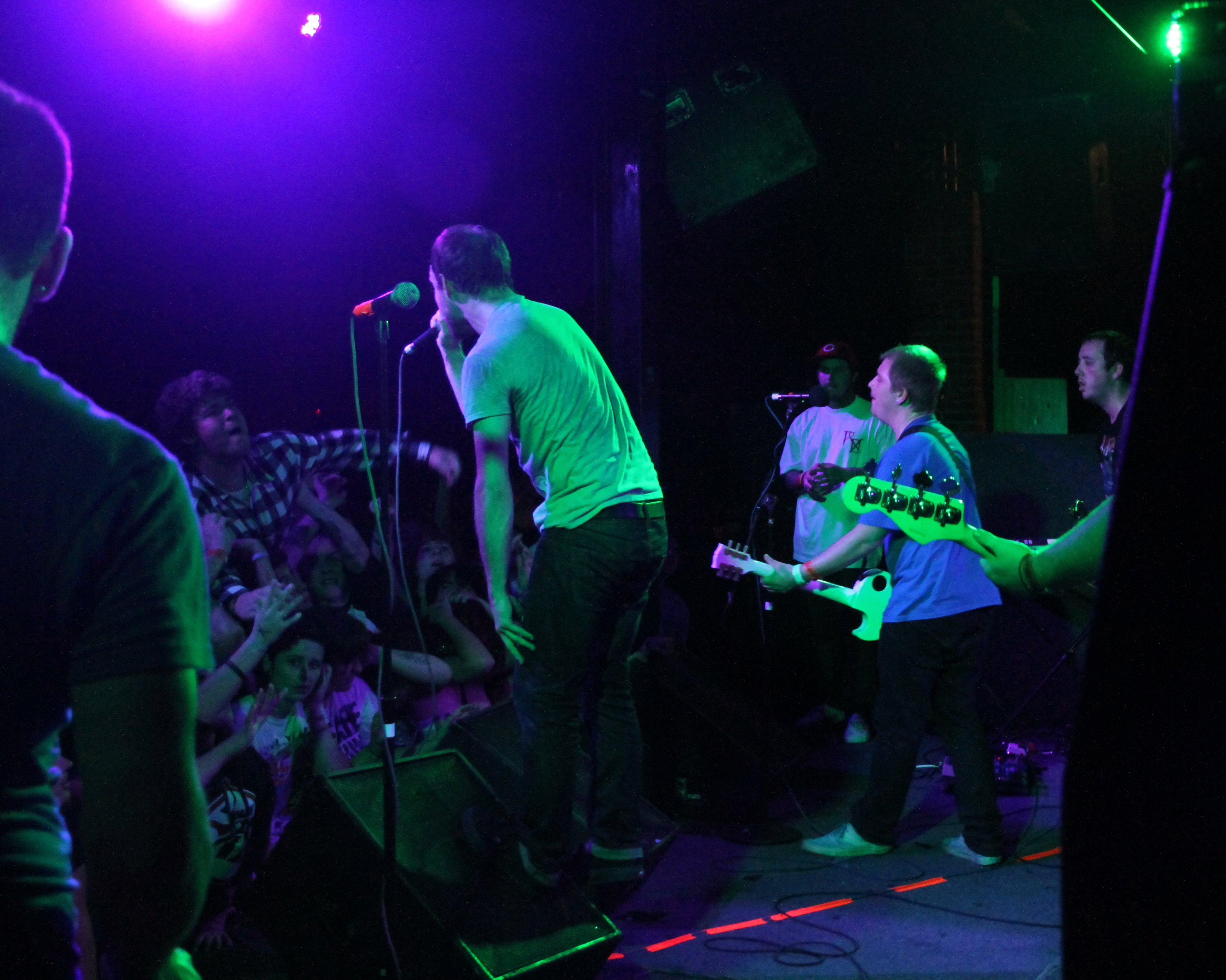 The Wonder Years performing live at Peabody's in Cleveland OH